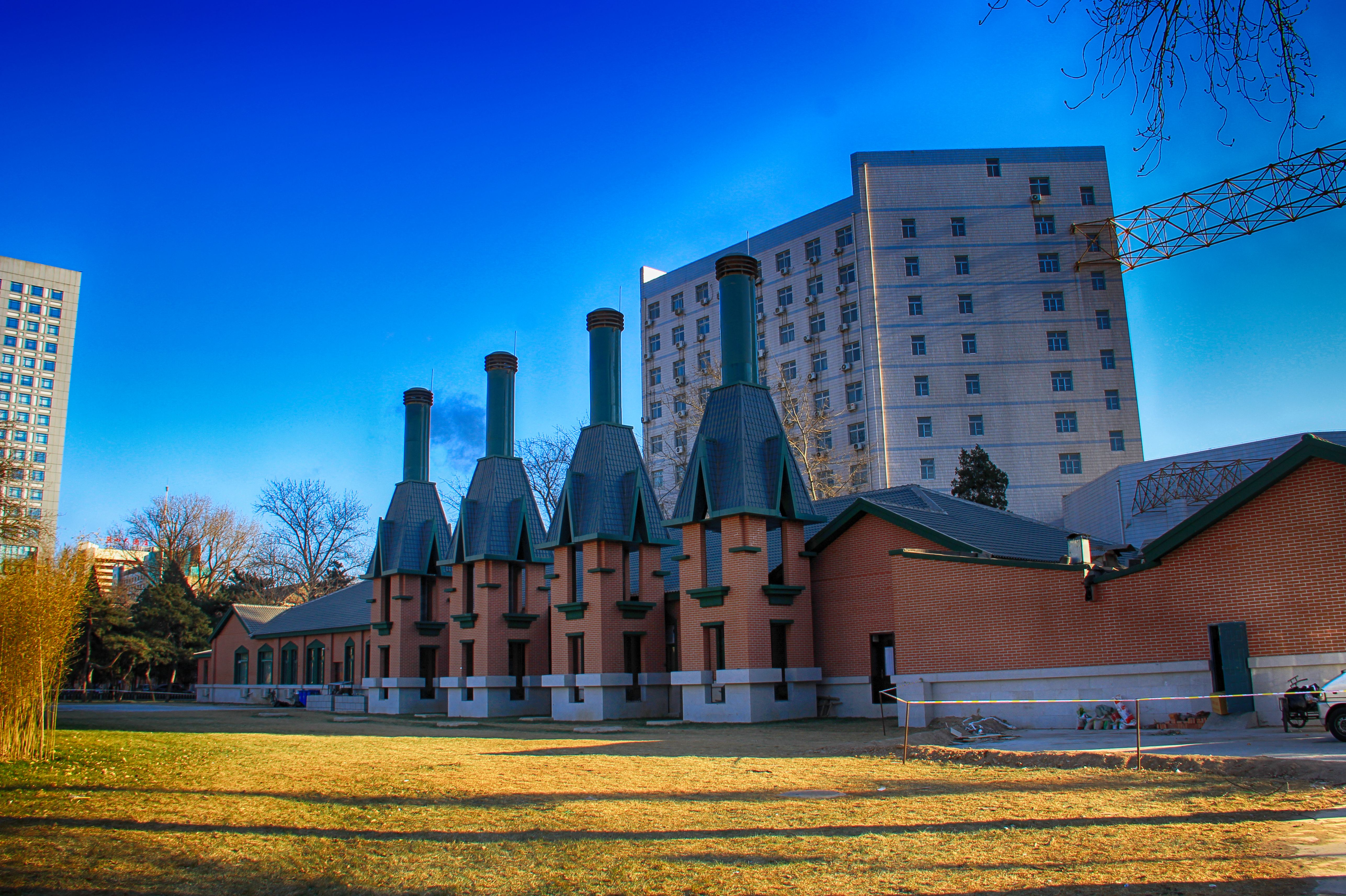 Café at Renmin University of China